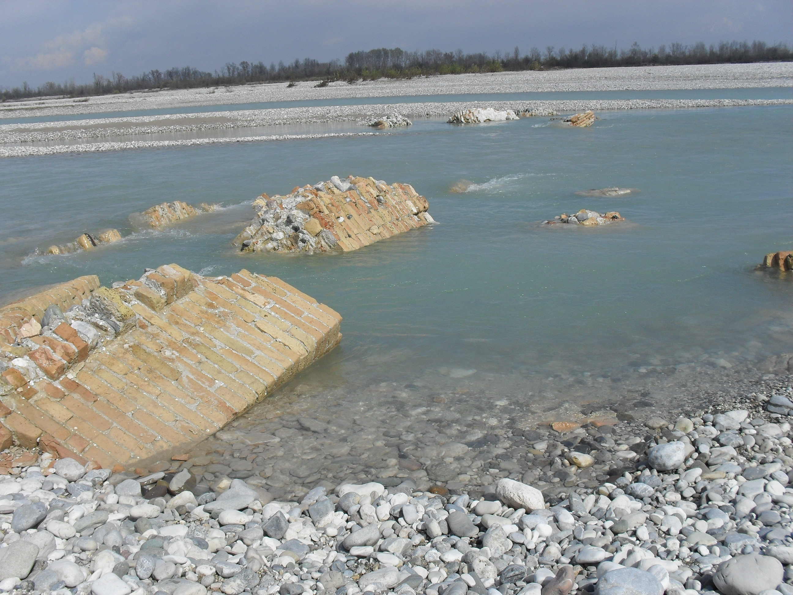 River Tagliamento (Italy) - View to east and the left bank of the river